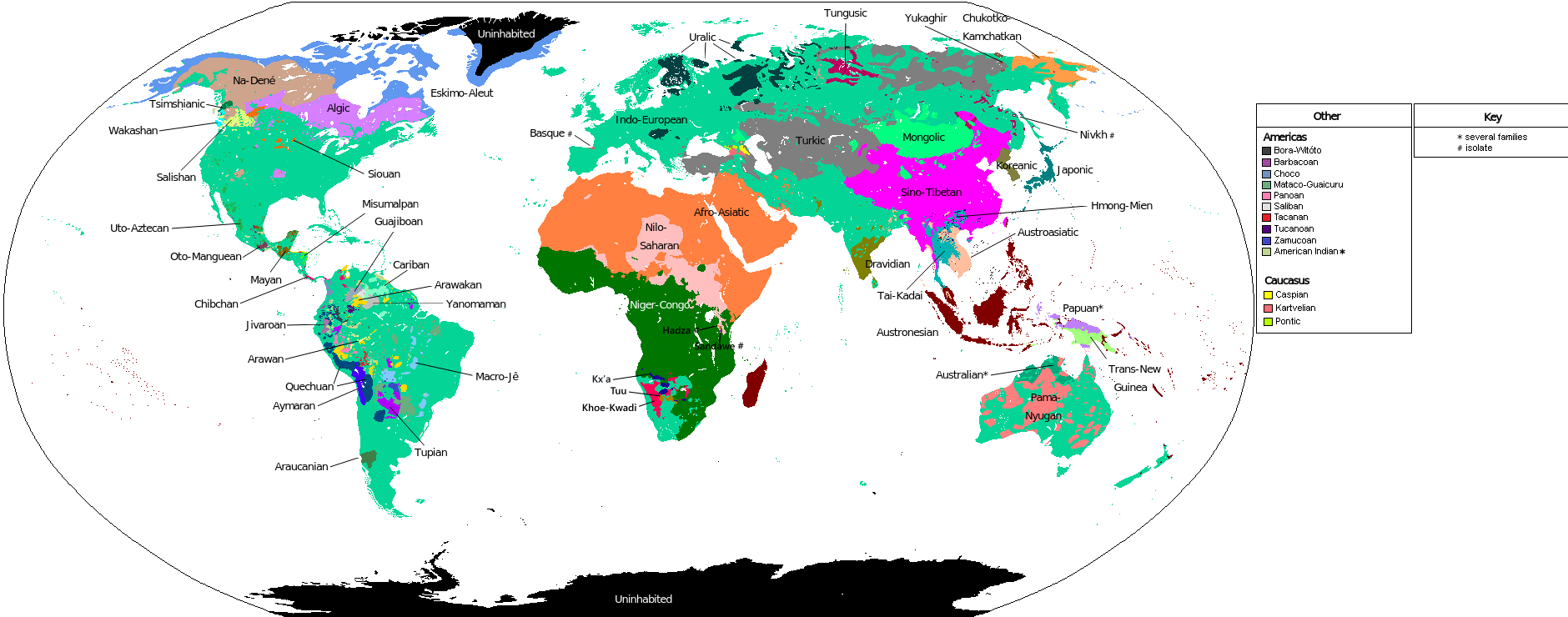 Modified version of File:Primary Human Language Families Map.png that replaces most keys by easier-to-identify indicators in the map and also fixes minor errors.